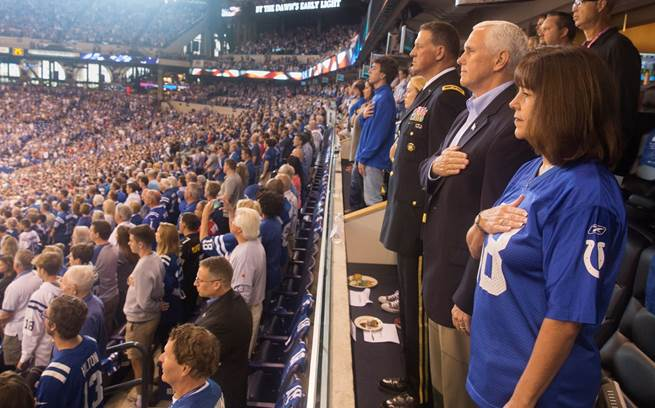 Vice President Mike Pence, Second Lady Karen Pence, and Major General Courtney P. Carr stand for the singing of the National Anthem at Lucas Oil Stadium before the start of the Indianapolis Colts game against the San Francisco 49ers prior to leaving the game on Sunday, October 8, 2017. (Official White House photo by Myles Cullen)